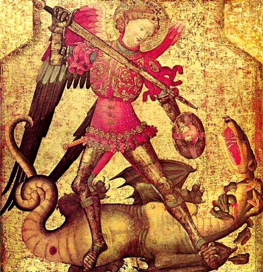 «Saint Micheal and the Dragon» with Sword & Buckler, wearing a brigandine with plate armour for hand and legs (as an illustration of armour of second half of 14c and beginng of 15c)